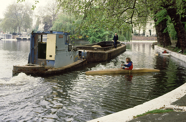 Little Venice A British Waterways tug pushes a barge, from the Paddington arm, past canoeists.